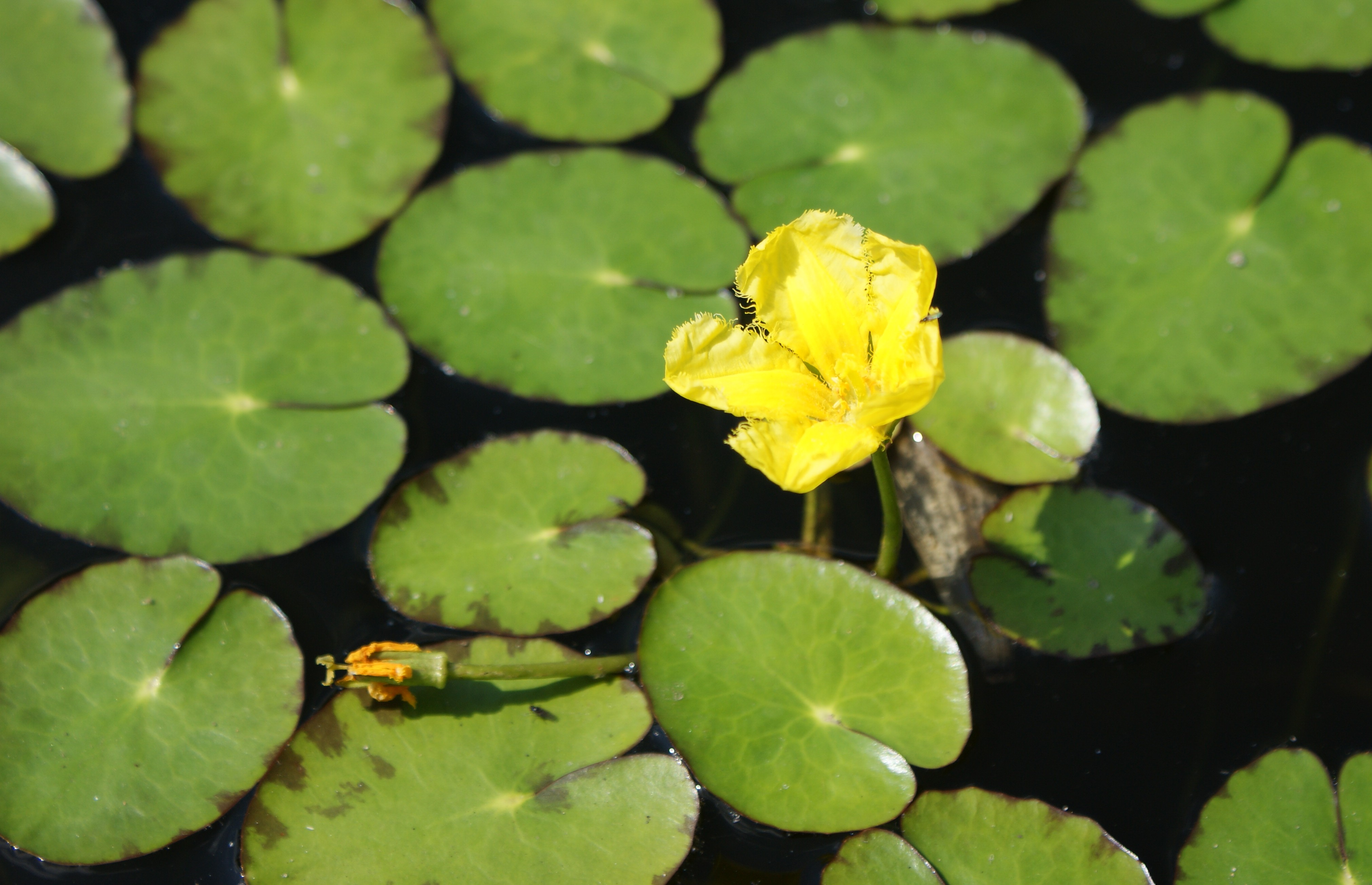 Nymphoides peltata, Botanic Garden in Wroclaw (Poland)